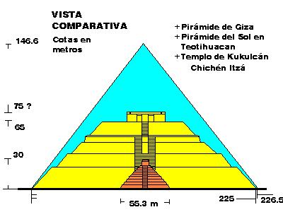 Compartive size of pyramid Great pyramid of Giza, Teotihuacan pyramid of the sun, and Kukulcán pyramid in Chichén Itzá